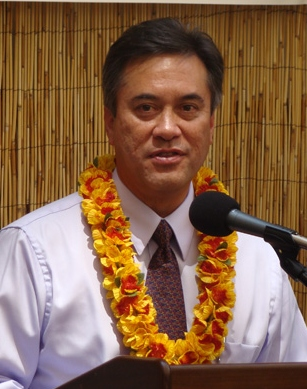 Guam Governor Felix Camacho, Island Festival Lunch